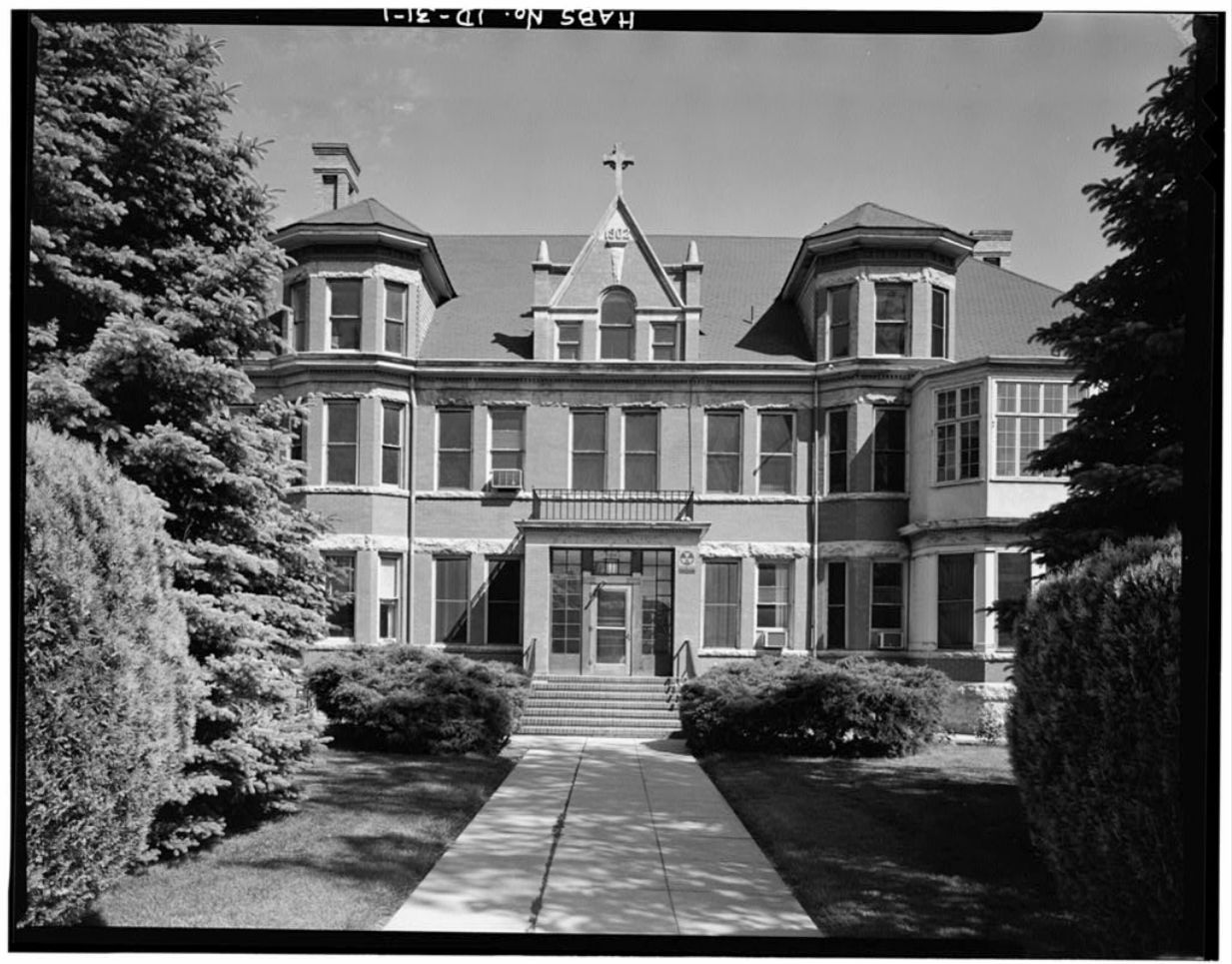 St. Alphonsus Hospital (1894) at 508 N 5th St in Boise, Idaho, demolished in 1976.